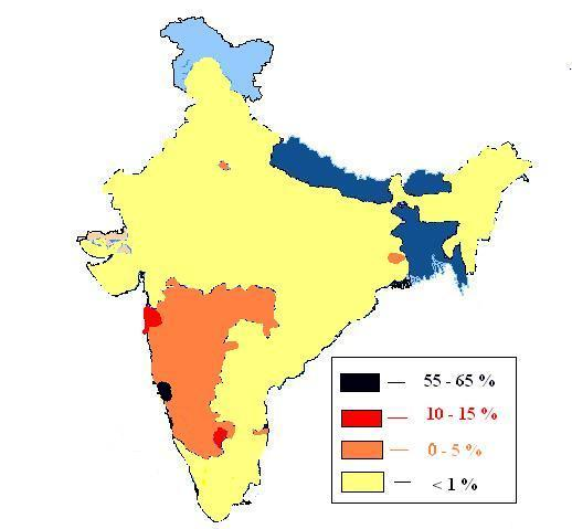 Goan Catholic Distribution chart (India).